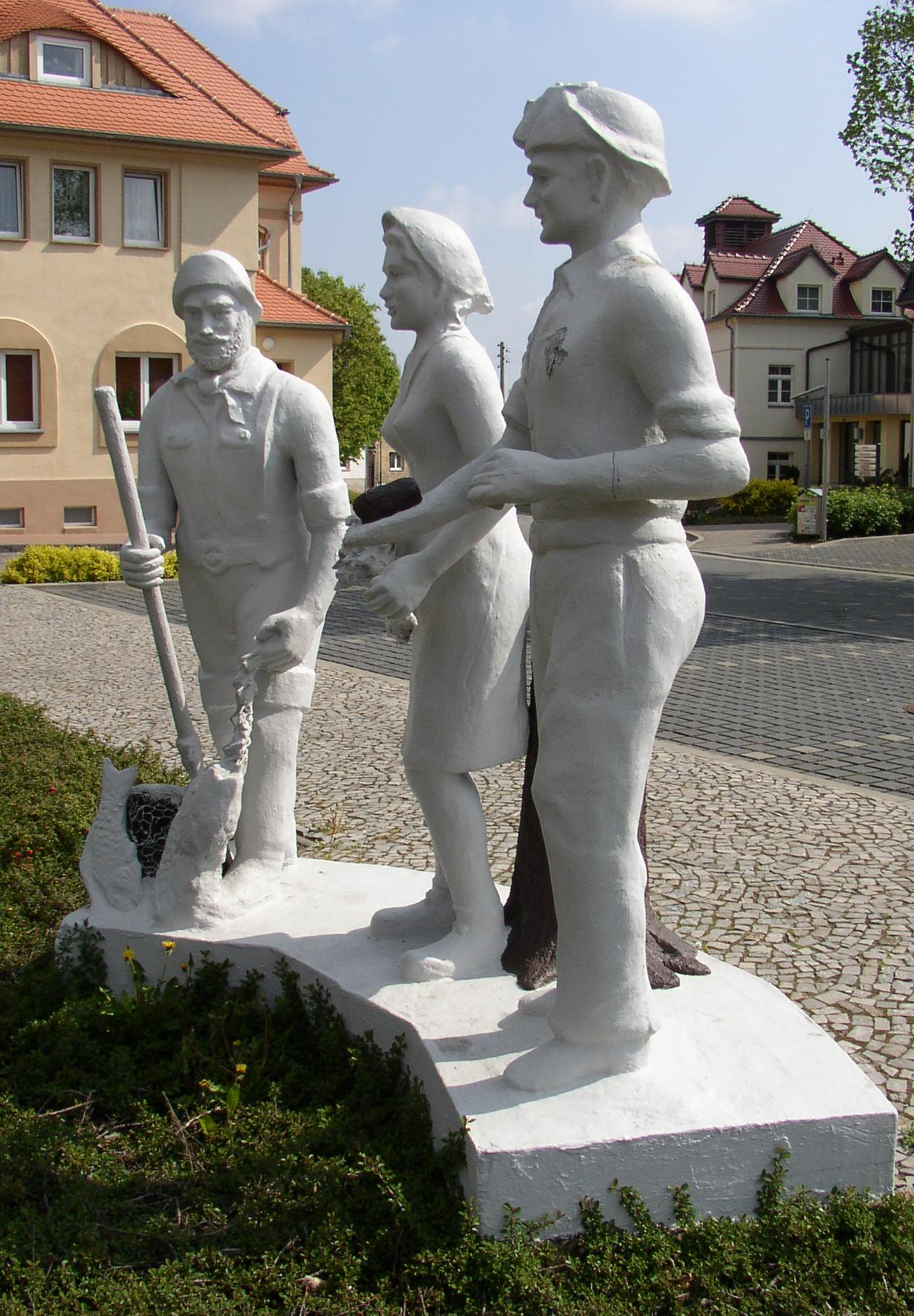 Memorial in Röblingen am See in Saxony-Anhalt, Germany